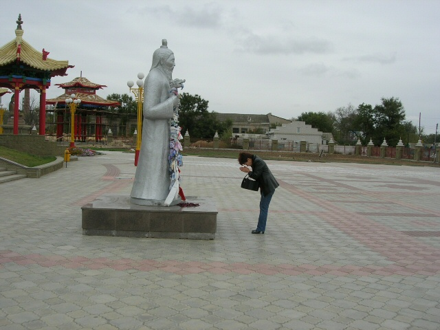 I took this photo of the Statue of the Old White Man, which stands in front-center of the new temple in downtown Elista, Republic of Kalmykia.